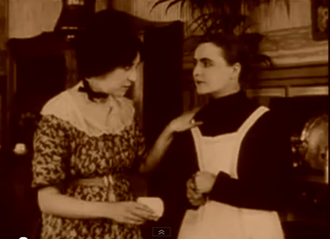 1916 screenshot of Musidora and Suzanne Le Bret in the Louis Feuillade-directed film series Les Vampires